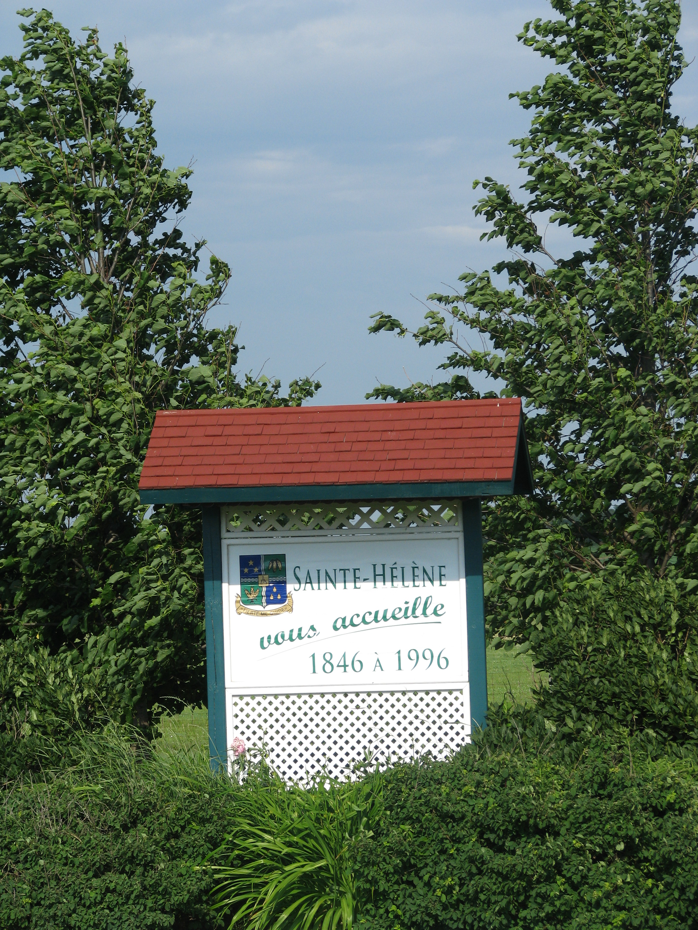 Welcome sign of Sainte-Hélène-de-Kamouraska